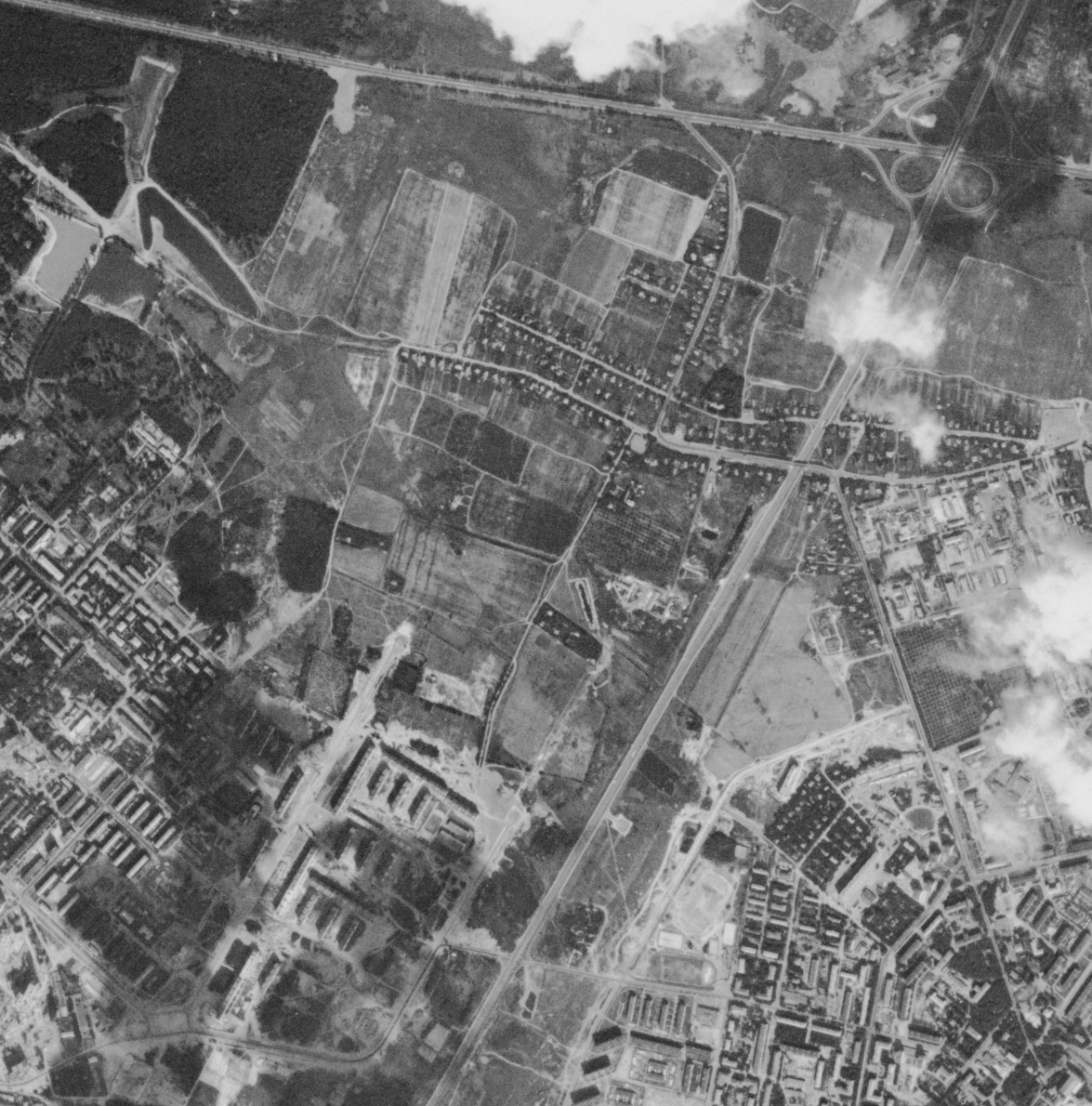 US DOD satellite reconnaissance photo, declassified since 1995.